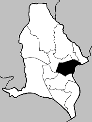 Location of Venda Nova parish in Amadora municipality. Map created by Brian Boru in December 2005.